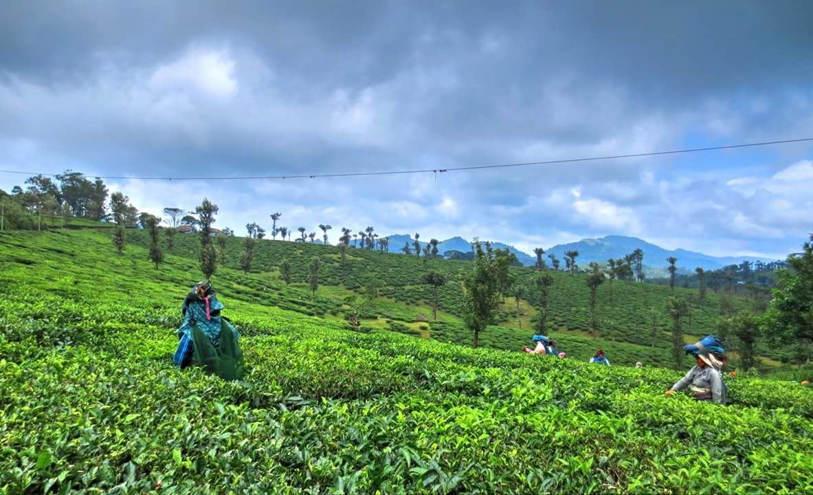 Tea Plantation at Nelliyampathy Hill, Palakkad Dist. Kerala, South India